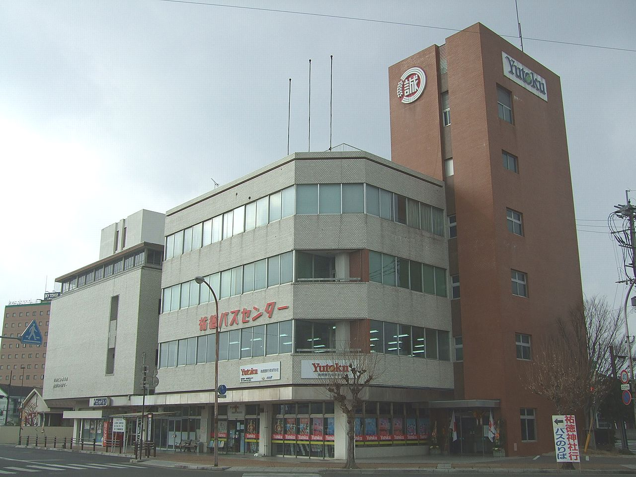 Yutoku Bus Kashima Bus Terminal. Takatsuhara, Kashima, Saga, Japan.